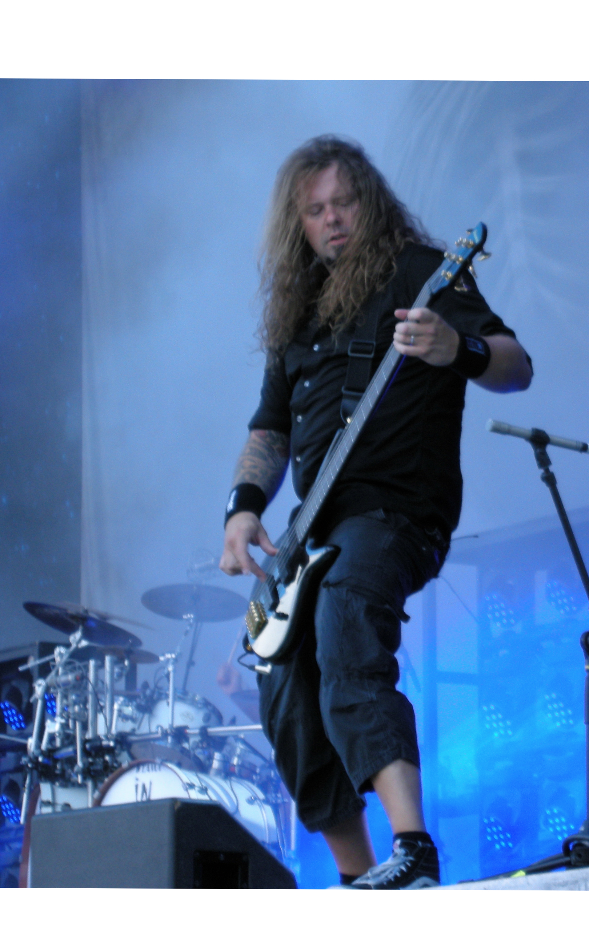 Peter Iwers with In Flames at Sonisphere Festival, Stockholm, Sweden 2011